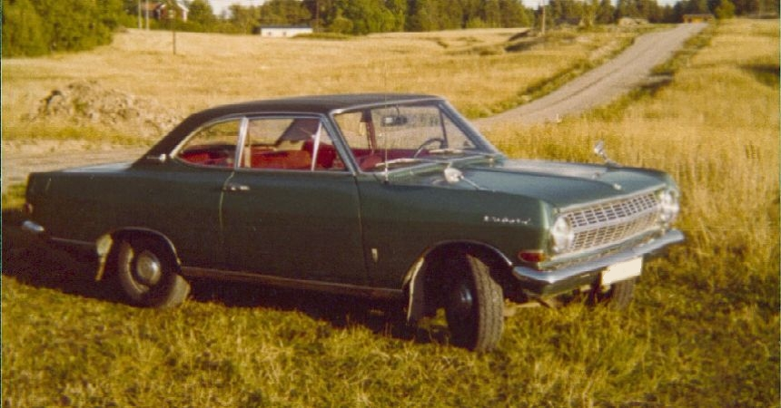 My 1965 Opel Rekord 6L. It was the predecessor to the Opel Commodore.